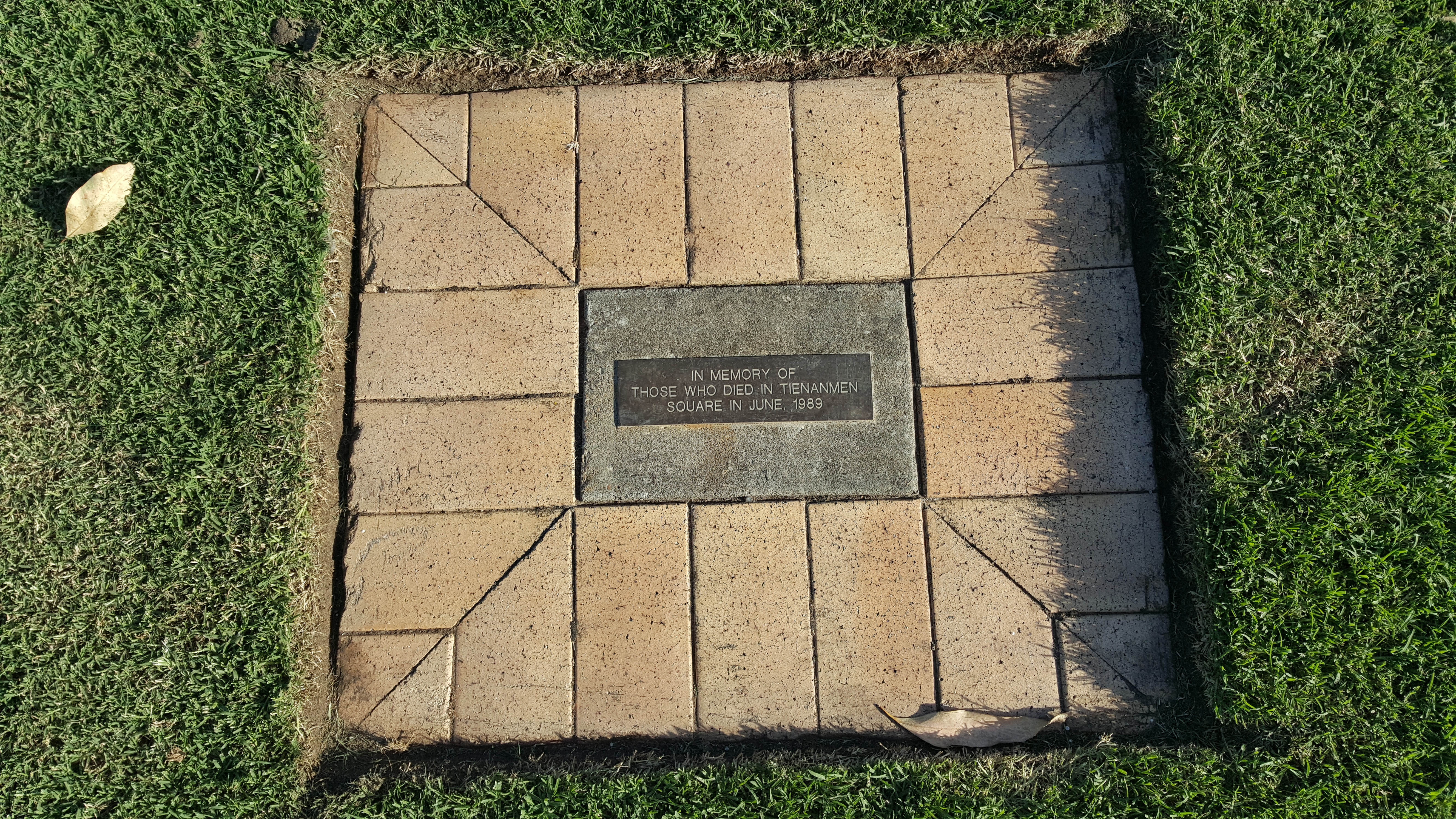 A bronze badge of remembrance June 4 Massacre located at Great Court, University of Queensland.